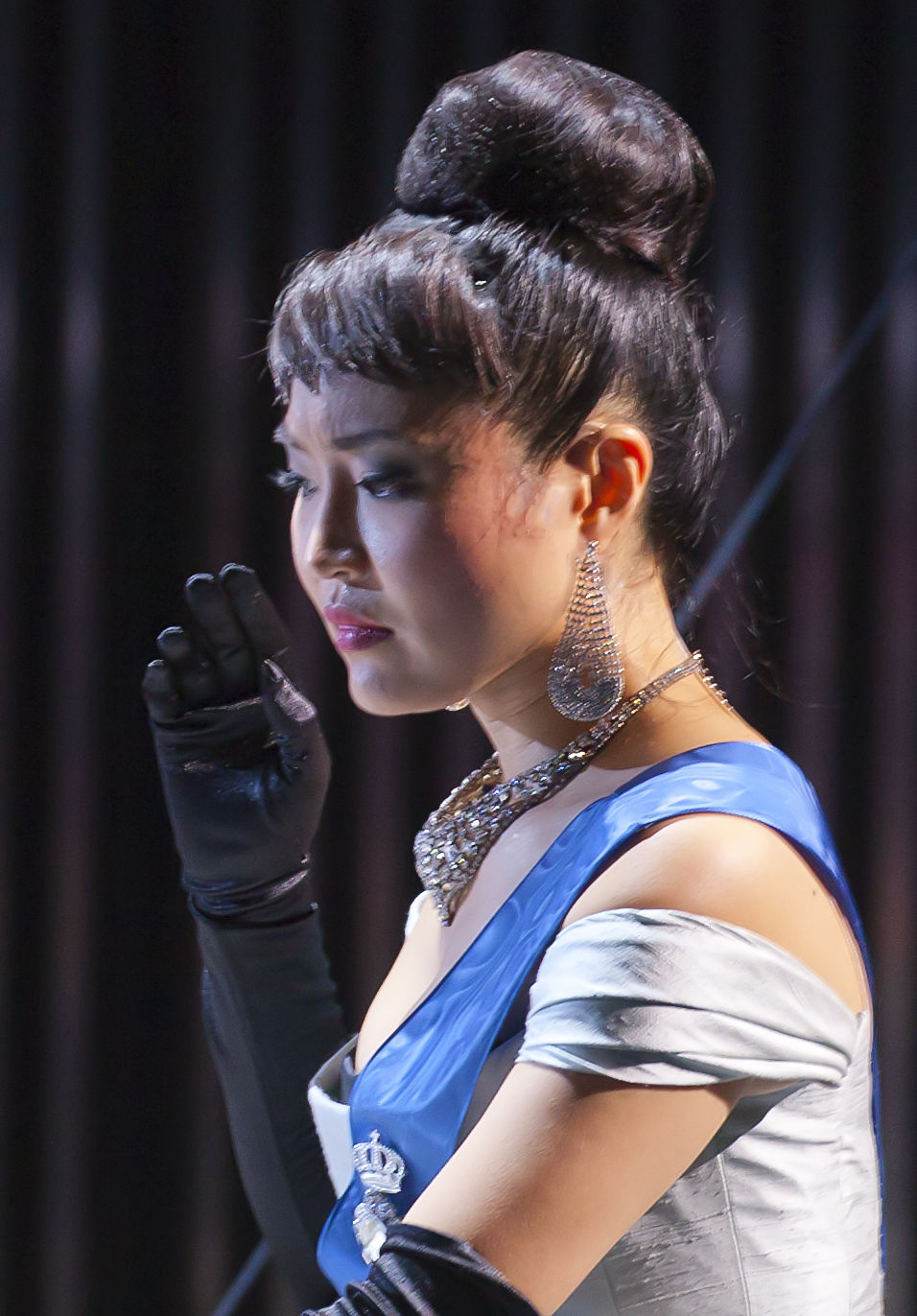 Production of Lear at Hamburgische Staatsoper 2012, stage photo of Ha Young Lee as Cordelia.